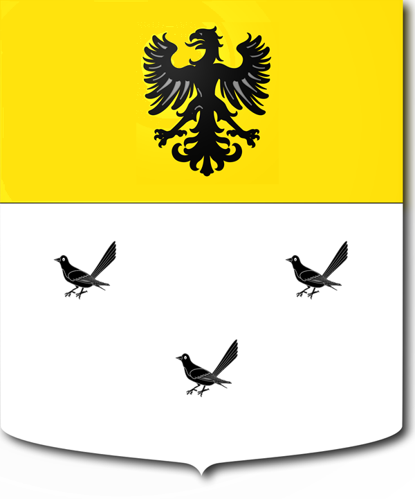 Agazzi family shield